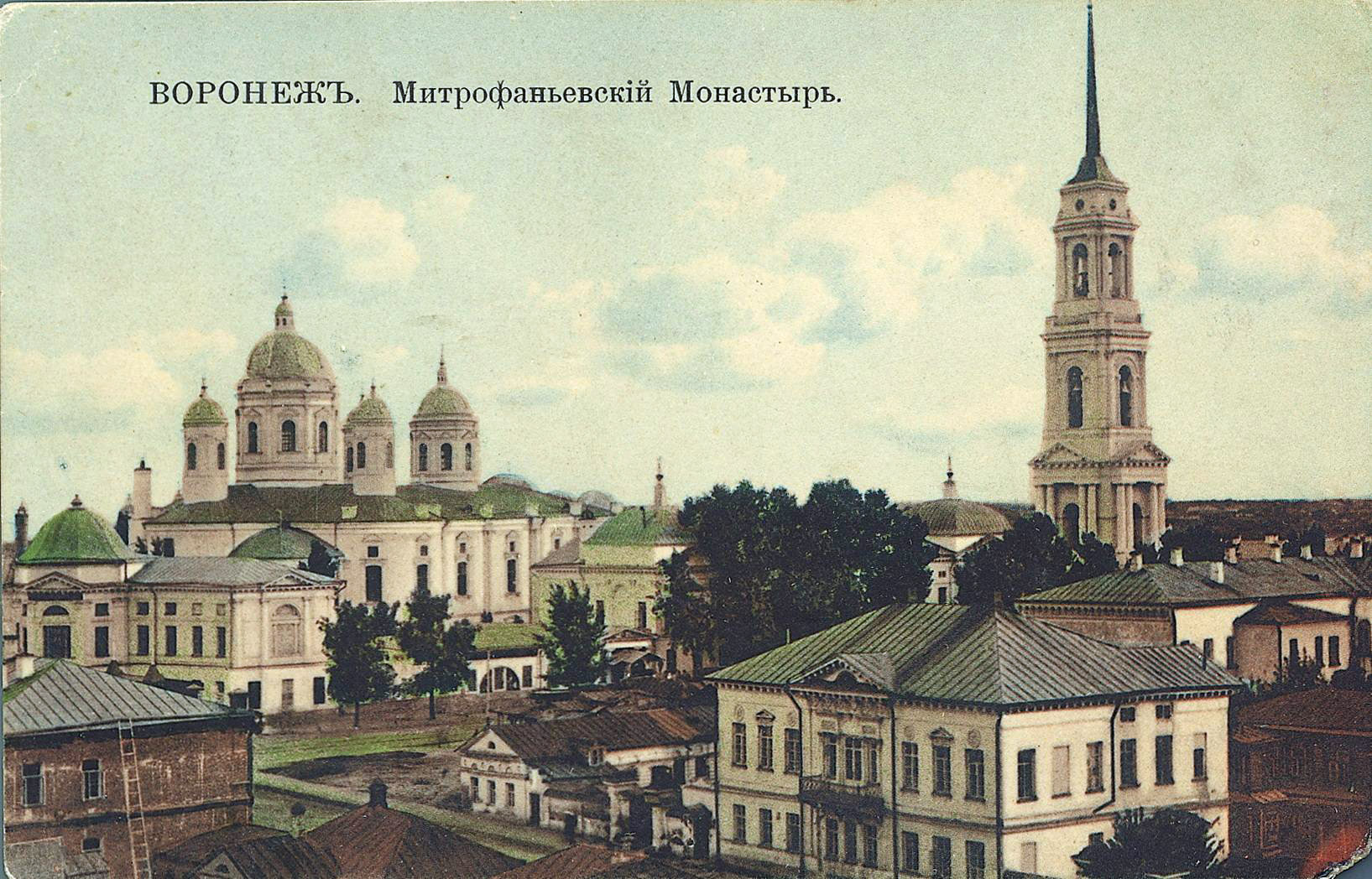 Благовещенский Митрофанов мужской монастырь